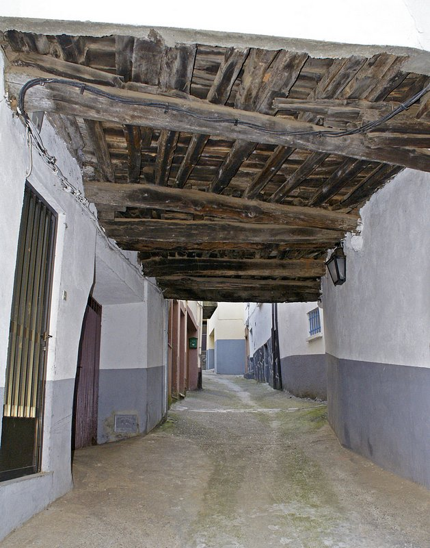 Arquitectura tradicional en Descargamaría